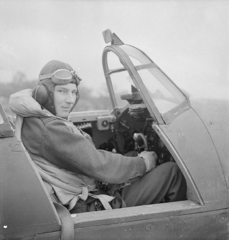 Royal Air Force 1939-1945- Fighter Command No 1 Squadron's CO, Squadron Leader James MacLachlan, in the cockpit of his Hurricane IIC at Tangmere, 20 November 1941.